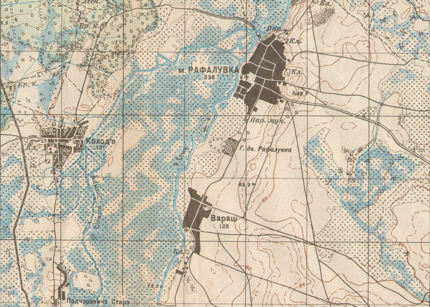 Varash on the map "Одноверстовая карта западного пограничного пространства", 1903 (reissued in 1933)